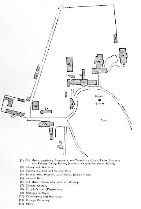 Map of Rose Hill, Fordham University (then St. John's College) from 1891.